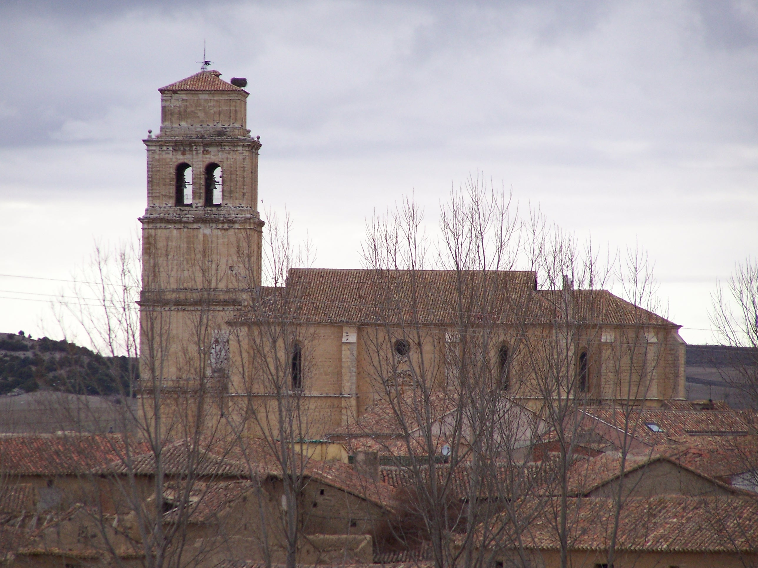 Church of San Martín in Mota del Marqués, Valladolid, Spain.